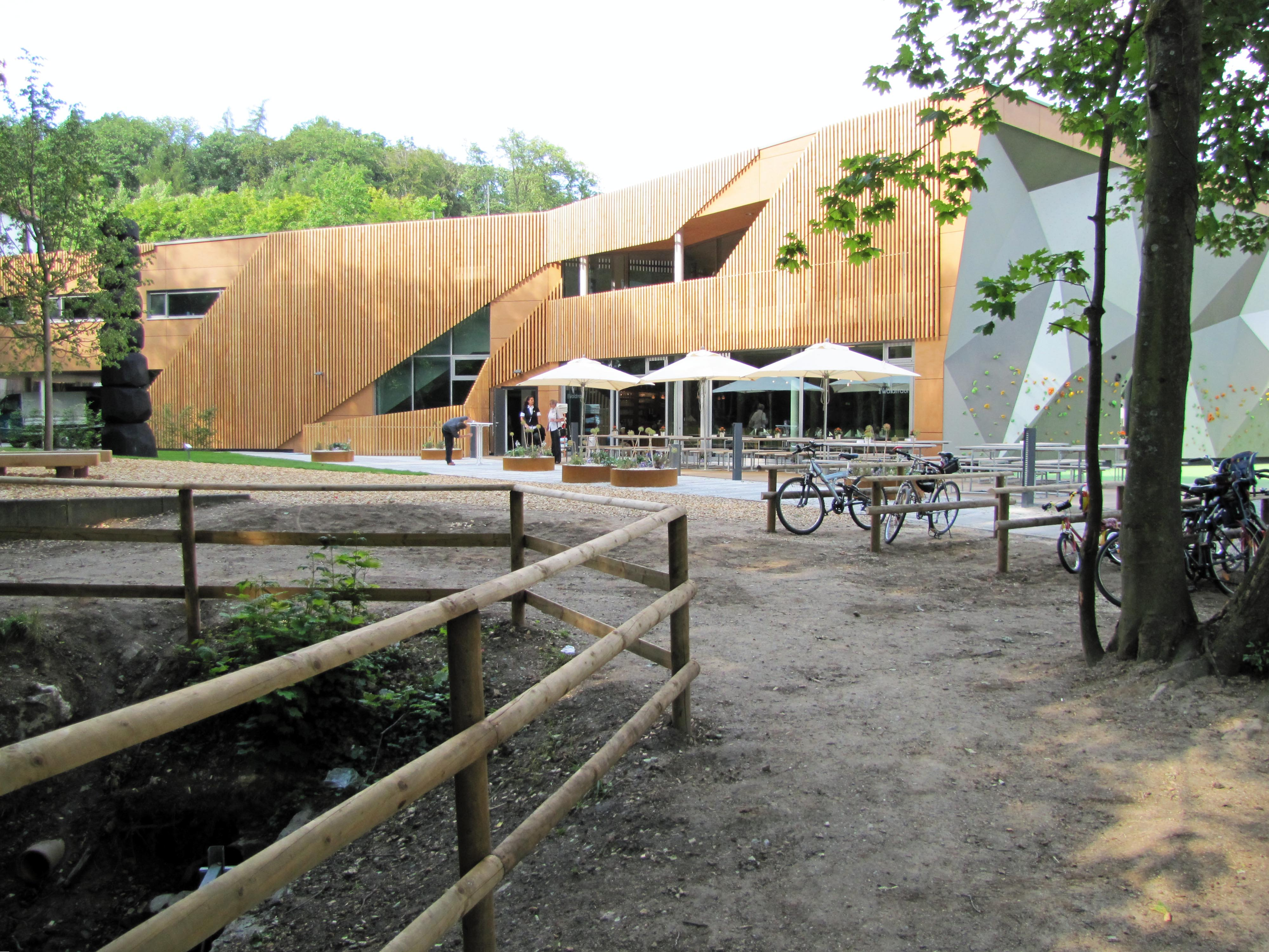 "Taunus-Informationszenter" (rearside) at Oberursel, Hochtaunuskreis, Germany.